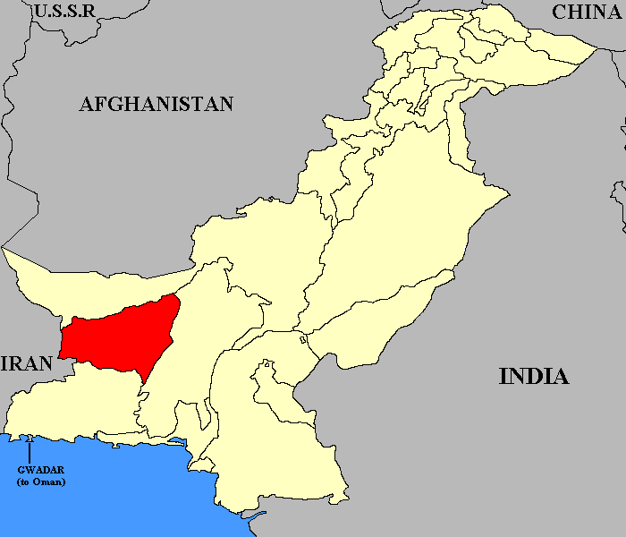 This map shows the relative position of the former State of Kharan up to its dissolution in 1955.